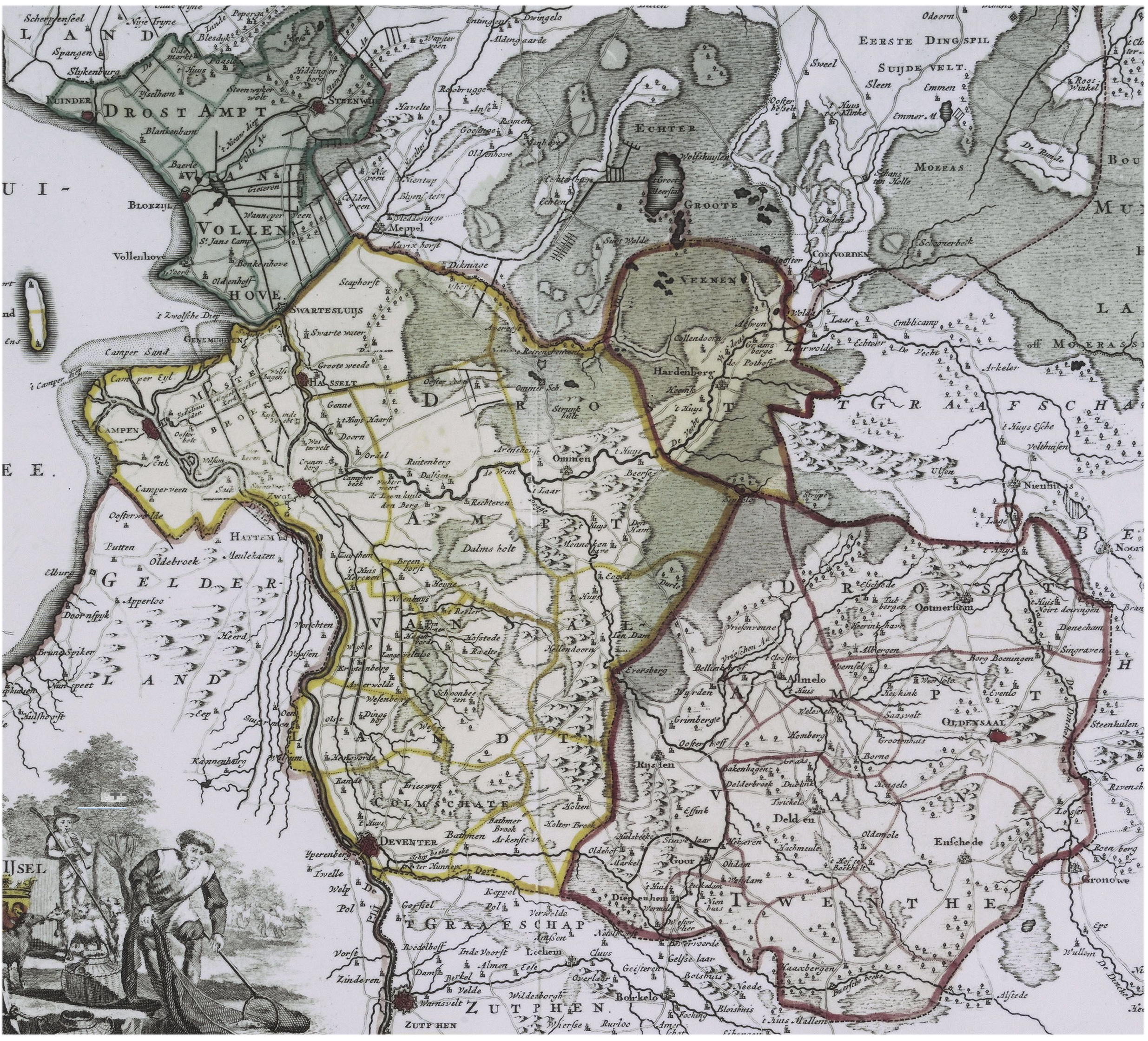 Atlas van de XVII Nederlandsche provintien